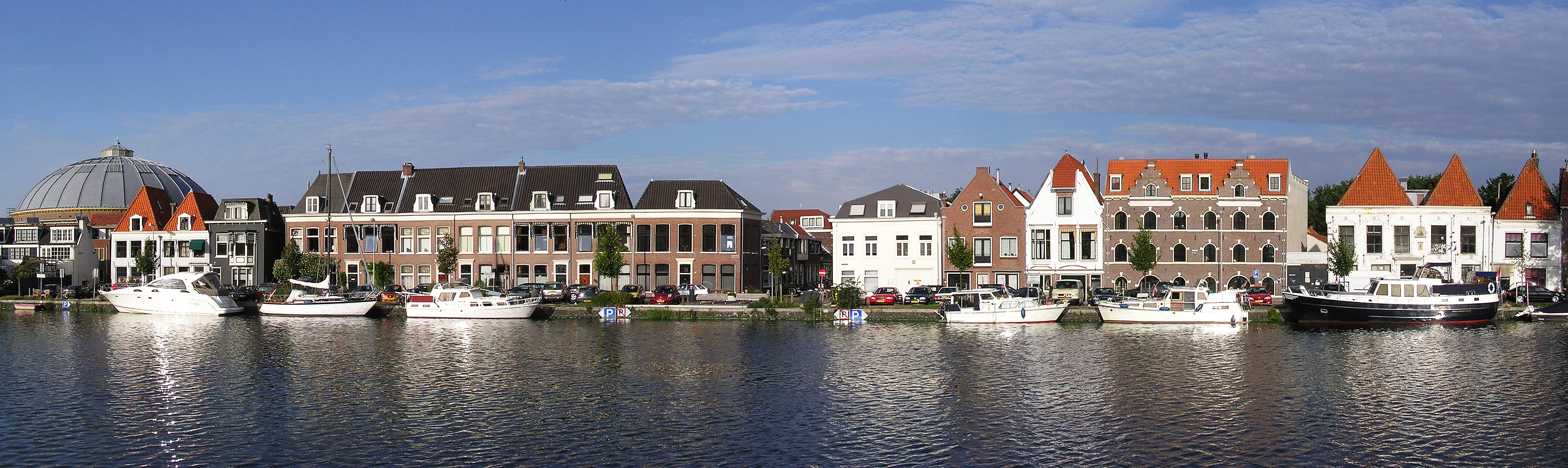 The houses along the Spaarne River, Haarlem, Netherlands.